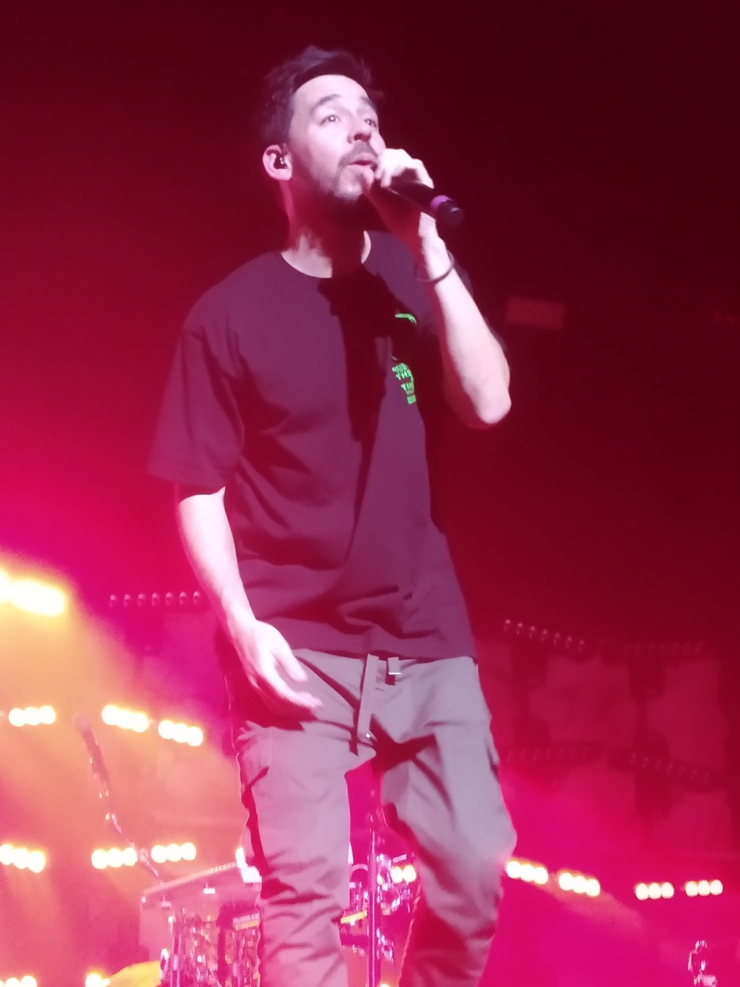 Concert of Mike Shinoda at the Zénith de Paris, 9 March 2019.